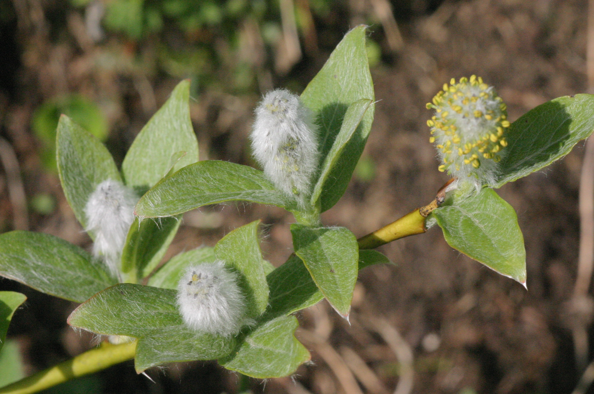 Salix hastata